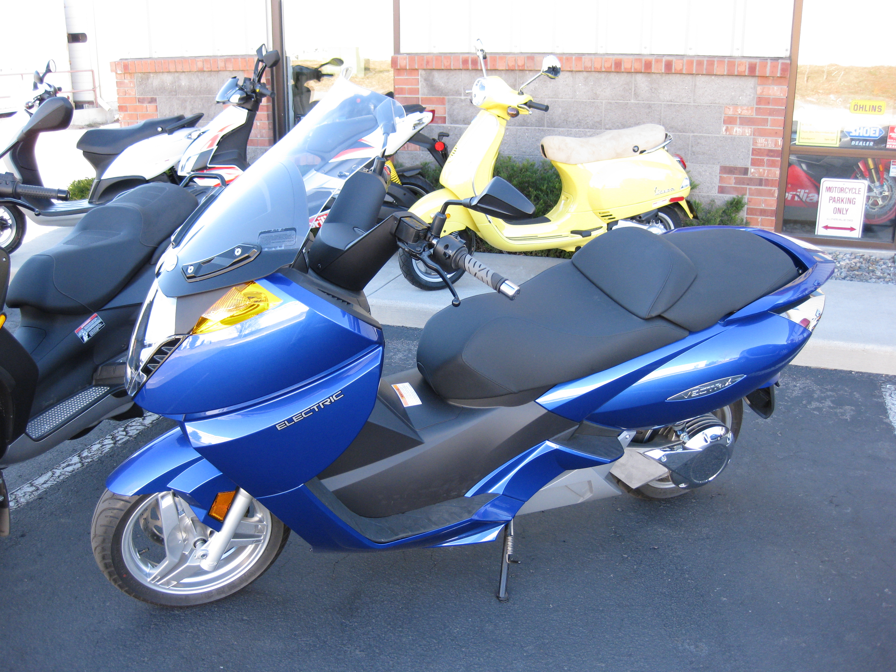 A Vectrix electric scooter pictured outside Beemers & More in Fort Collins, CO, USA